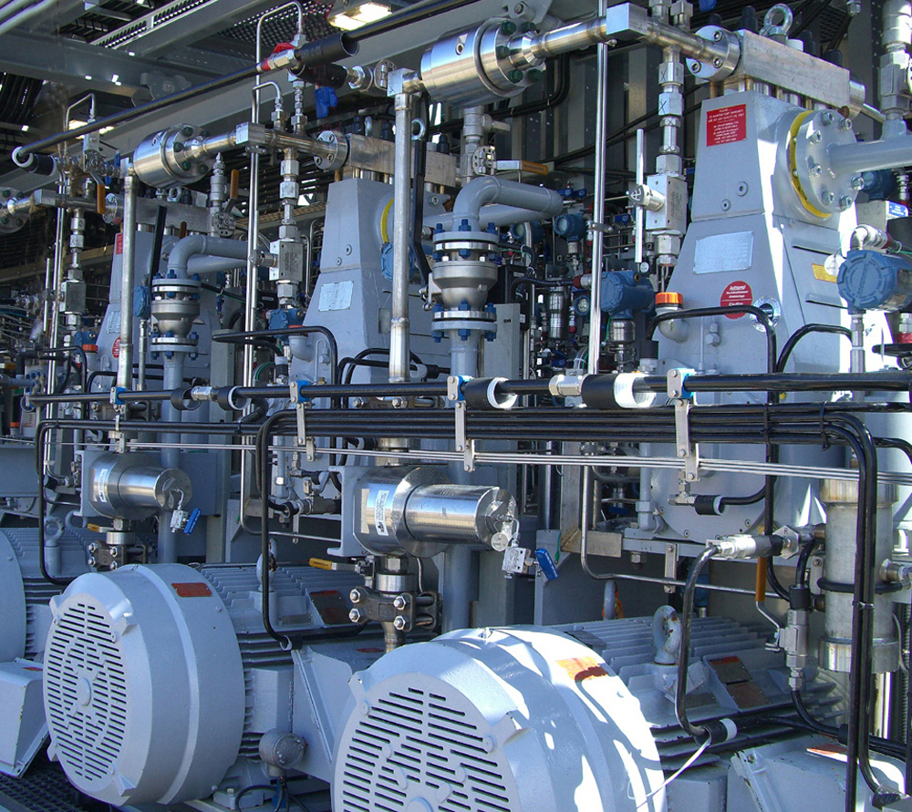 Injection of Methanol, Glycol, Reservoir water, Anti corrosion fluid, Crude oil, CO2, Chemical anti foaming and separating fluids Sea and wash water, Non flammable hydraulic fluid, Oil based hydraulic fluid, Process water